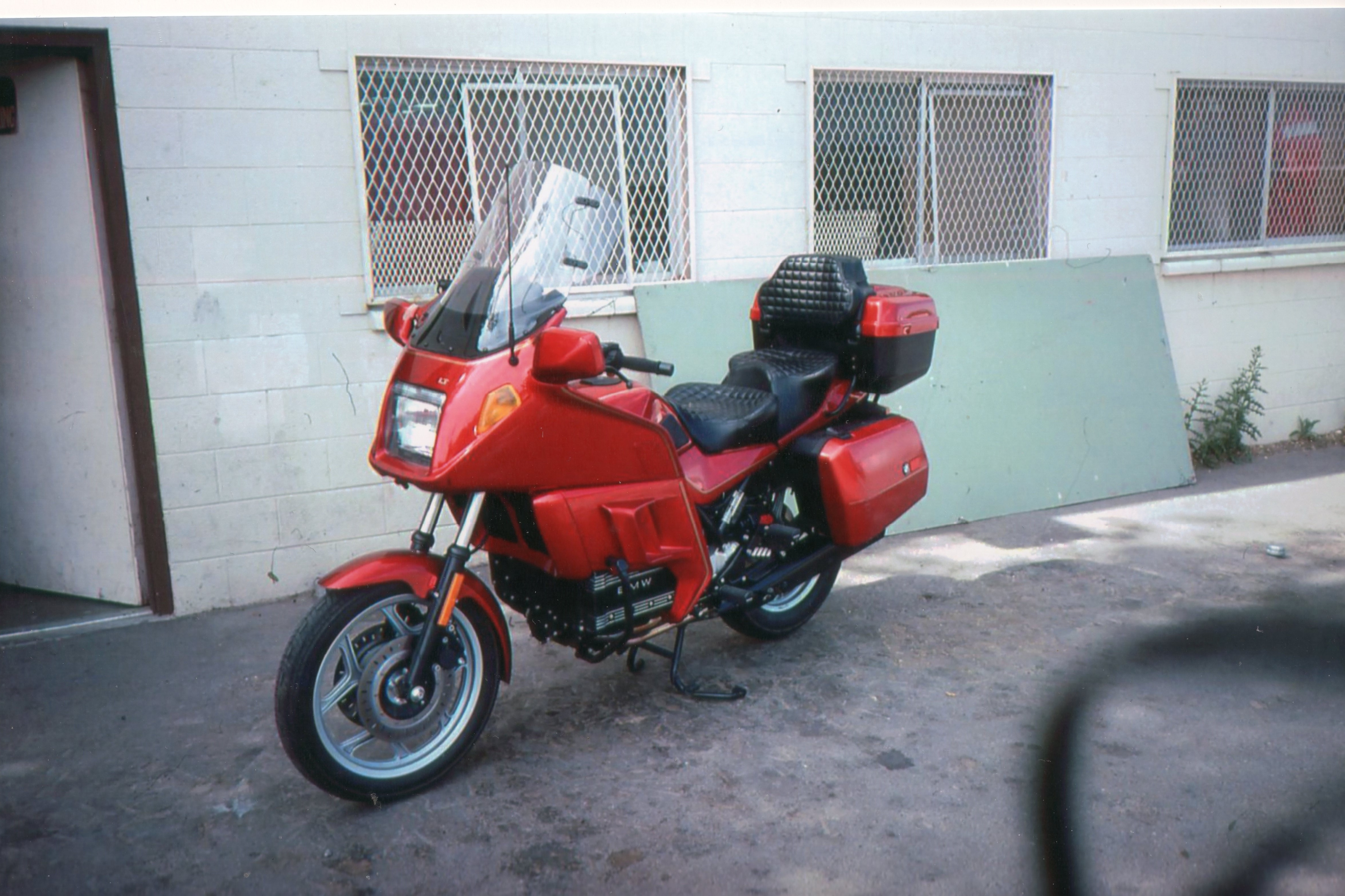 BMW K100LT at Reno BMW at Sparks, near Reno, Nevada in 1991.